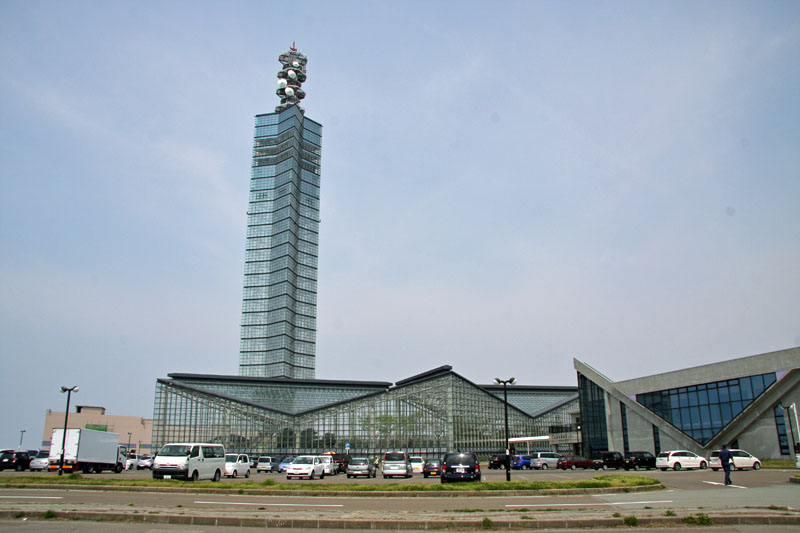 Full view of Akita Port Tower SELION, Akita, Akita, Japan